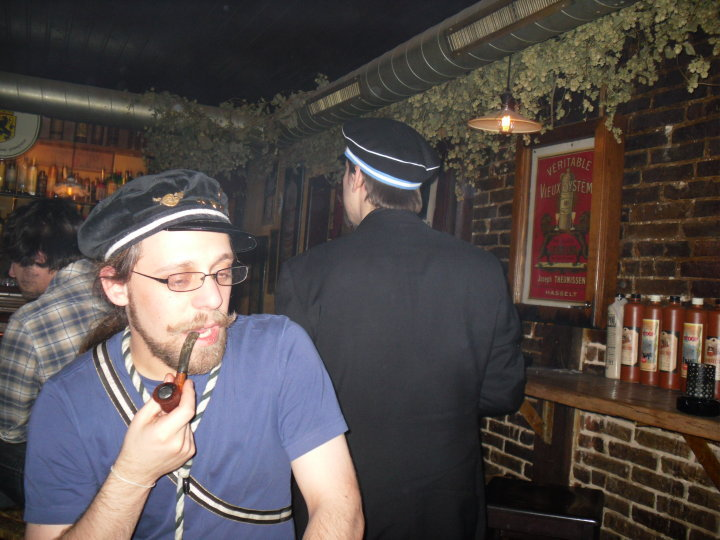 Traditional "petten", worn by students in Ghent